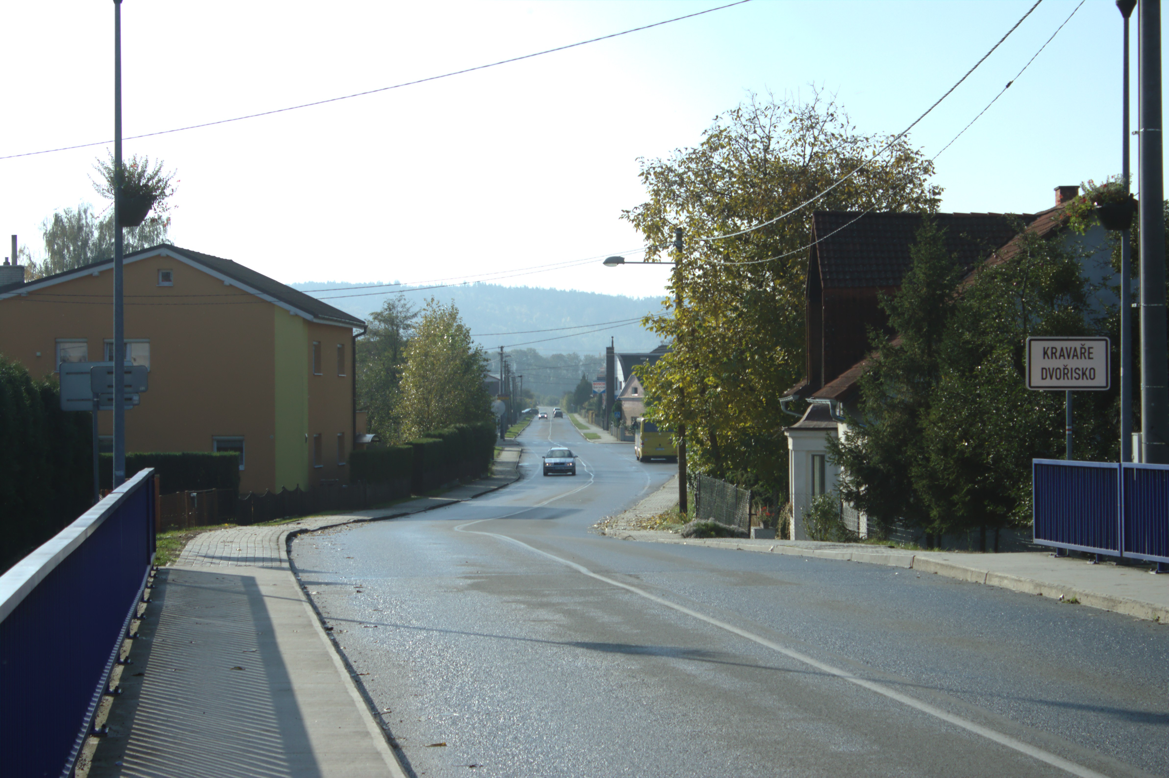 Northern limit of the village of Dvořisko, Moravian-Silesian Region, CZ